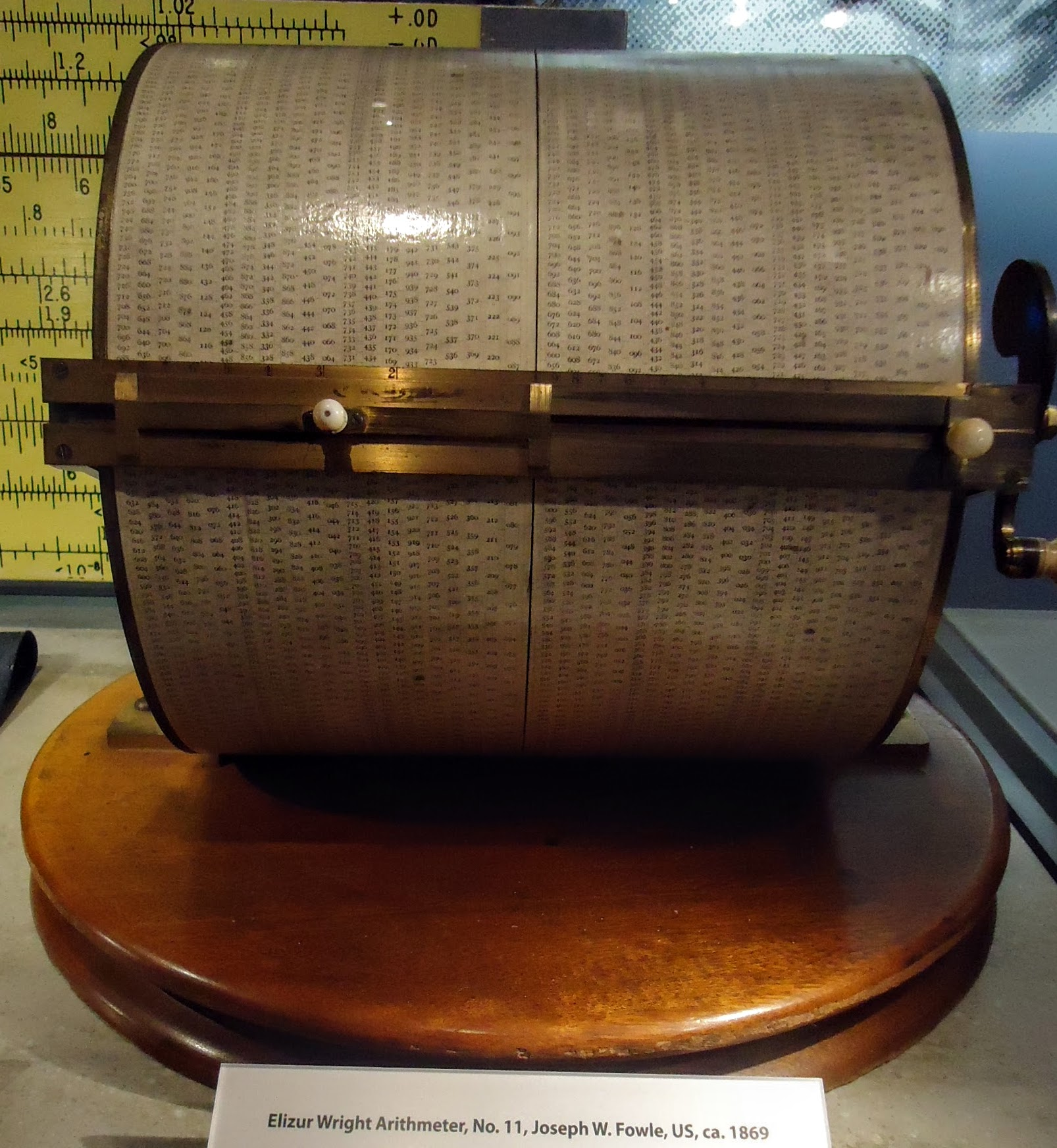 Elizur Wright Arithmeter, No. 11, Manufactured by Joseph W. Fowle, U.S., circa 1869, on display at the Computer History Museum. The museum was established in 1996 in Mountain View, California, USA, and is dedicated to preserving and presenting the stories and artifacts of the information age, and exploring the computing revolution and its impact on society.